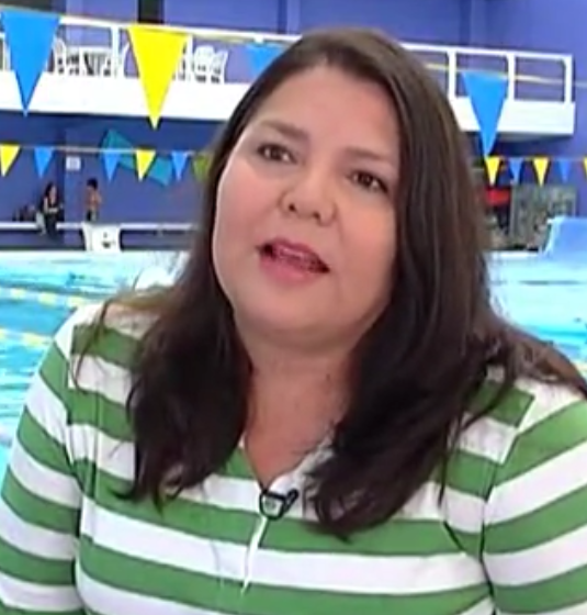 Karin Slowking coaching - an Olympic swimmer of Guatemala - clipped from a cc by sa video Fernando Valdes